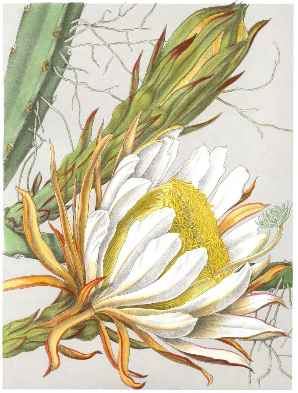 Hylocereus monacanthus